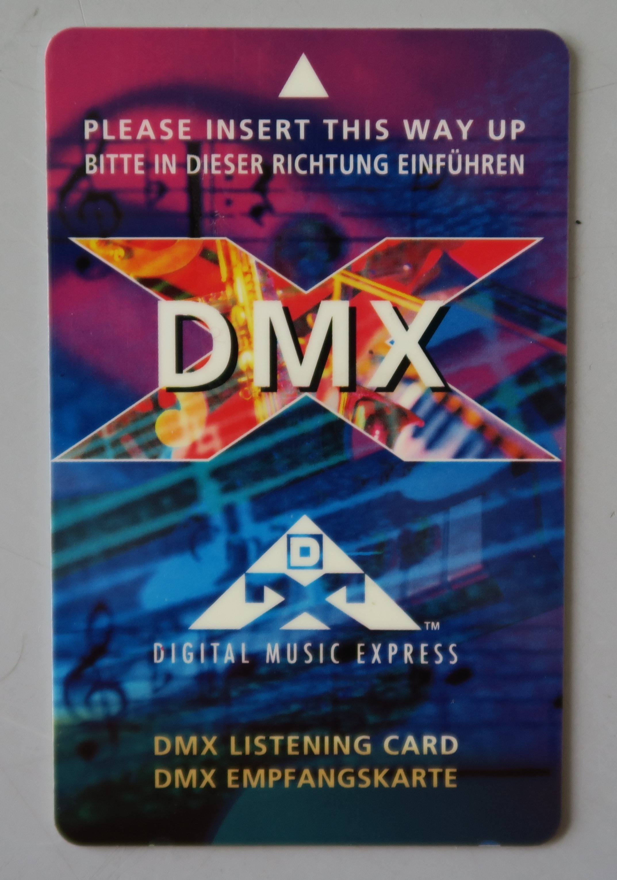 Digital Music Express Smart card DMX News Datacom Digitalradio